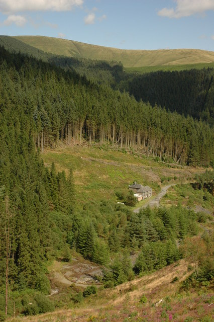 Disused quarry, Dyfi Forest Nature is reclaiming this disused quarry in the Dyfi Forest, viewed here from a forest road on Mynydd Hendre-ddu.